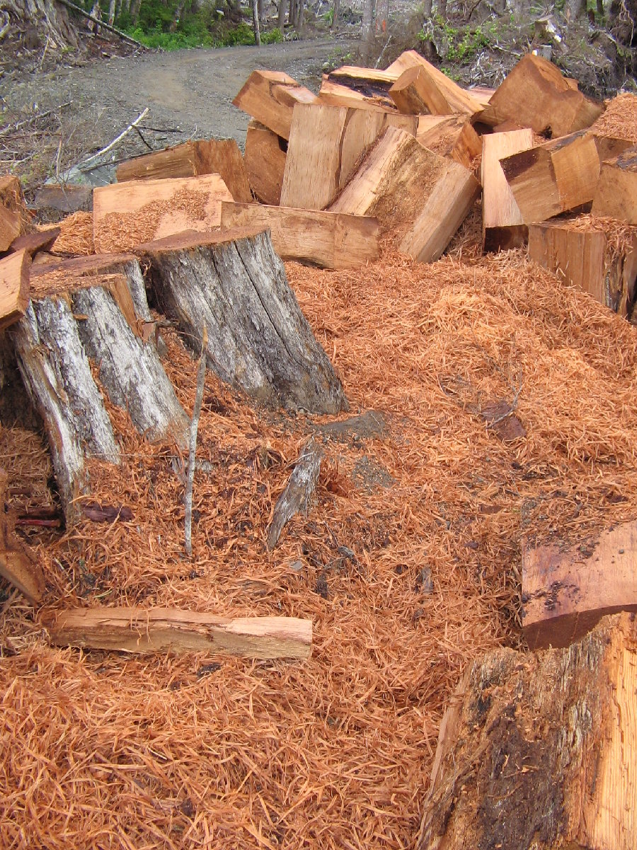 Recently cut bolts of Western Redcedar